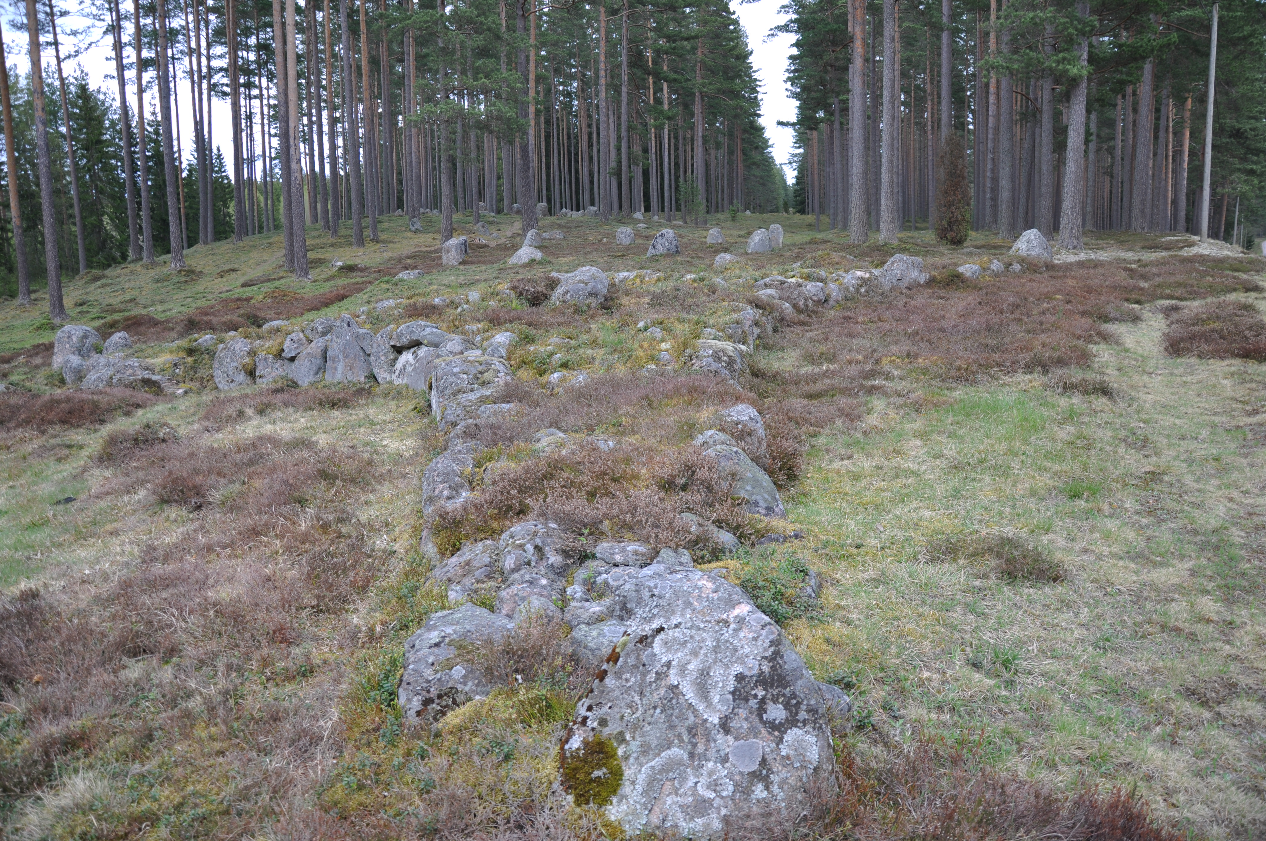 An ancient site in Flisby parish, Nässjö municipality, Jönköping county, the Province of Småland, Sweden.